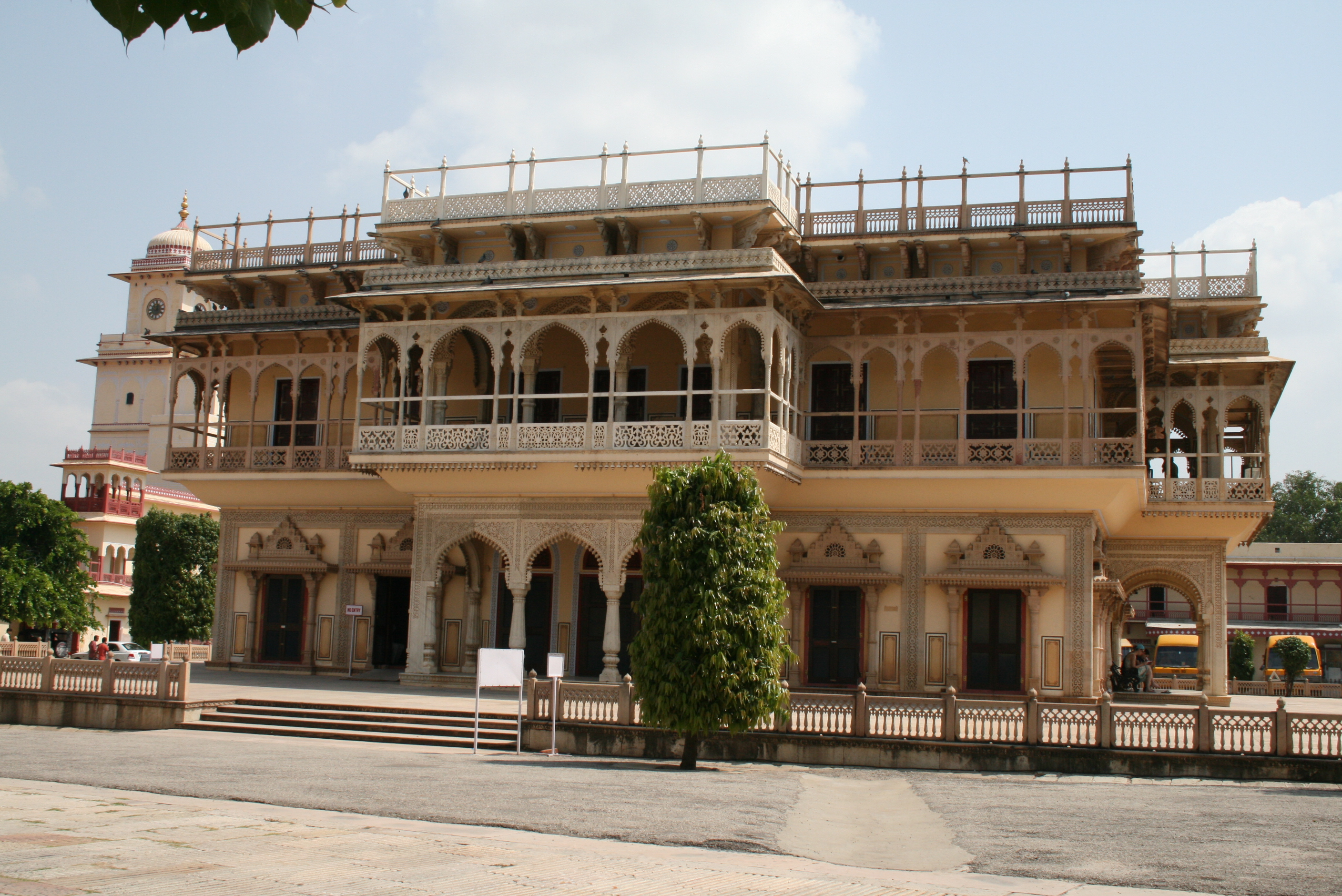 Mubrak Mahal, City Palace, Jaipur